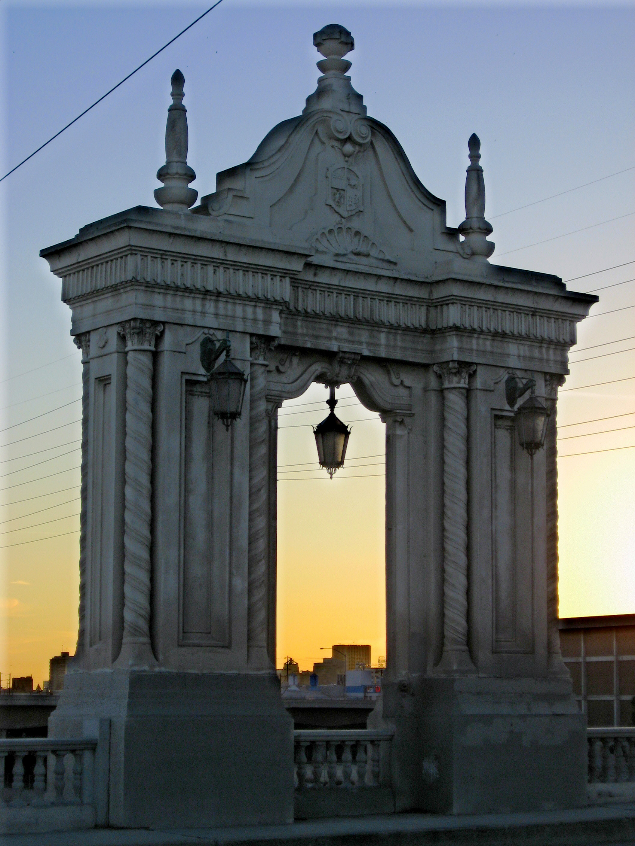 Arch of the Cesar Chavez Street Bridge, over the Los Angeles River in Downtown Los Angeles. On eastern section formerly named Sunset Boulevard.